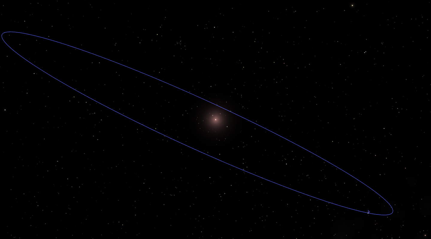 Simulation of the planetary system Gliese 849. The simulated image was taken by free program Celestia.